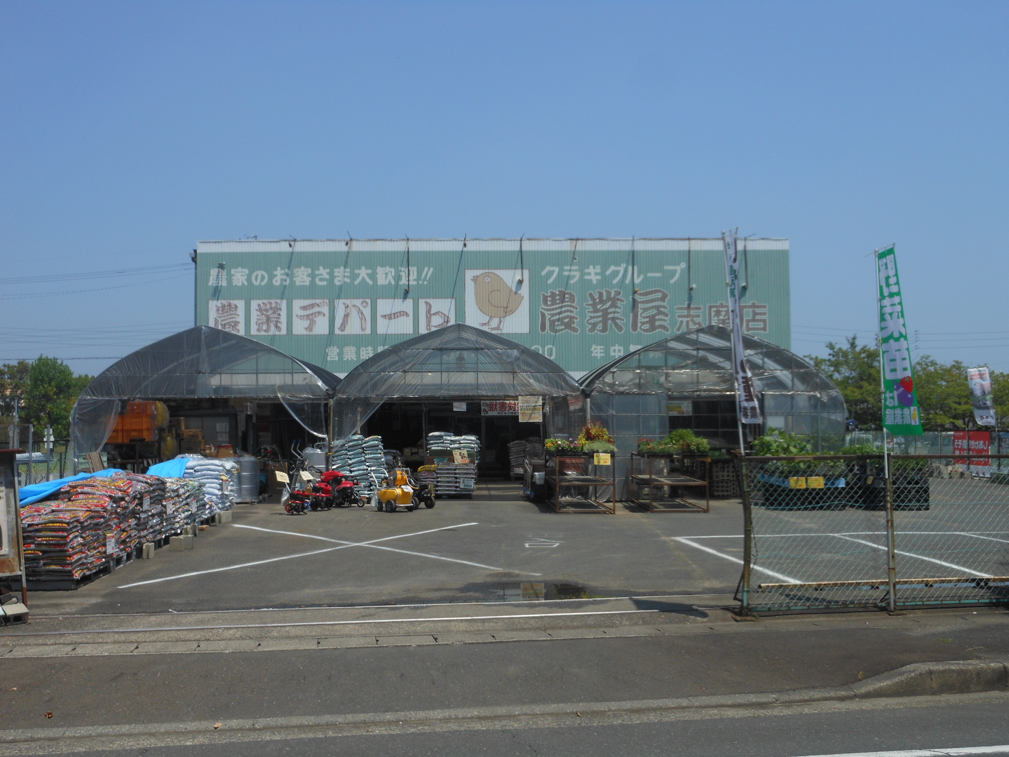 This is an agricultural shop in Mie,Japan.